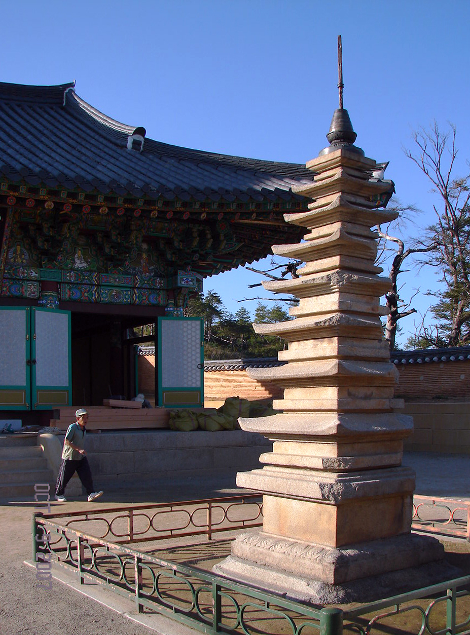 Naksansa's seven storied stone pagoda, Naksansachilcheungseoktap, Treasure No.499